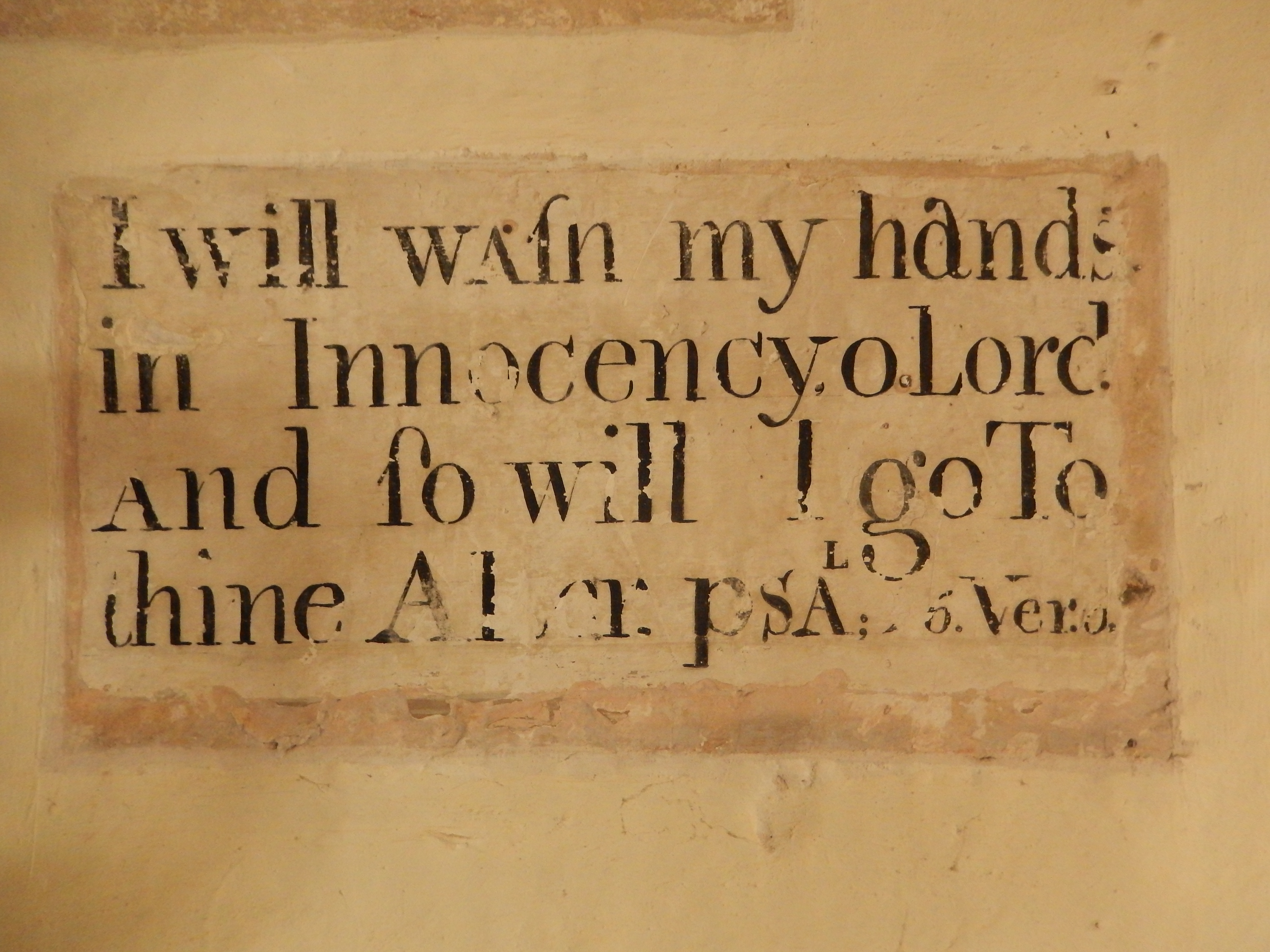 Wall painting of the text of Psalm 26.6 (I will wash my hands in Innocency O Lord And so will I go to thine Altar) on the west end of the north wall of the church of St James, Bramley, Hampshire.